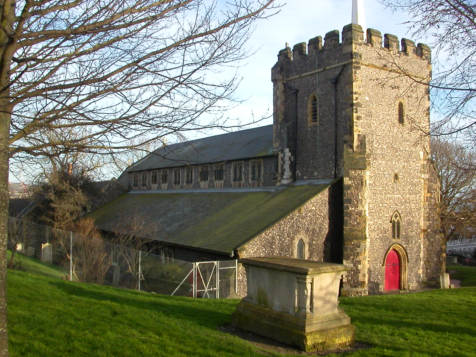 St Nicholas' parish church, Brighton, East Sussex, seen from the northwest on 10 March 2007